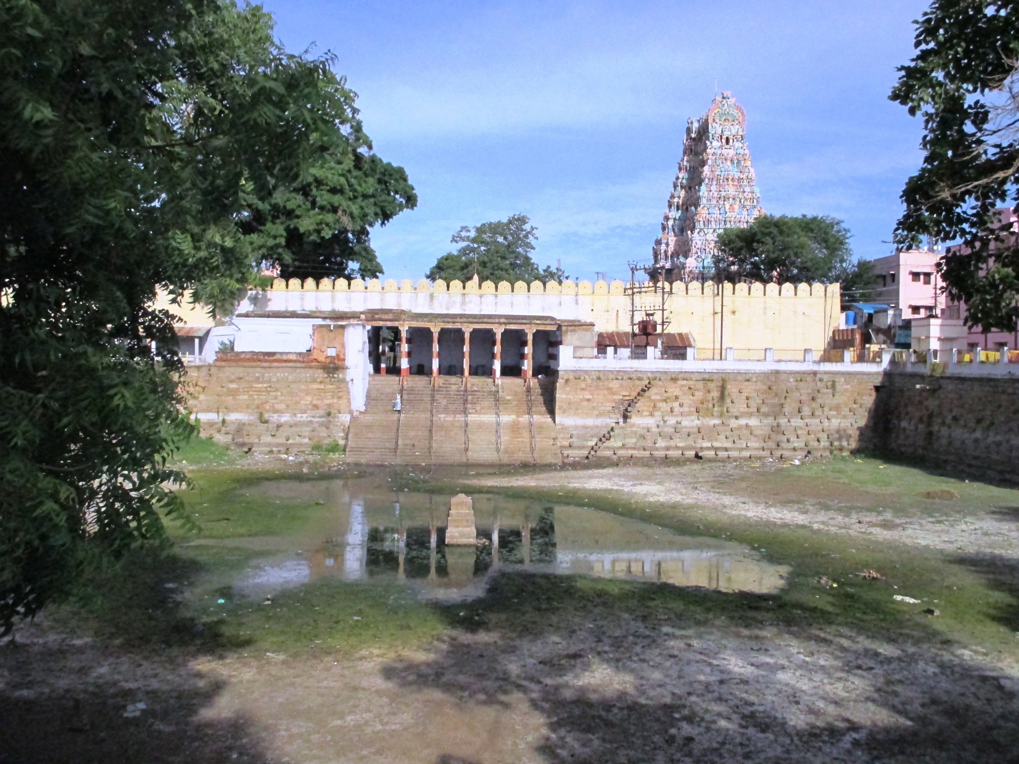 Tiruparamkundram